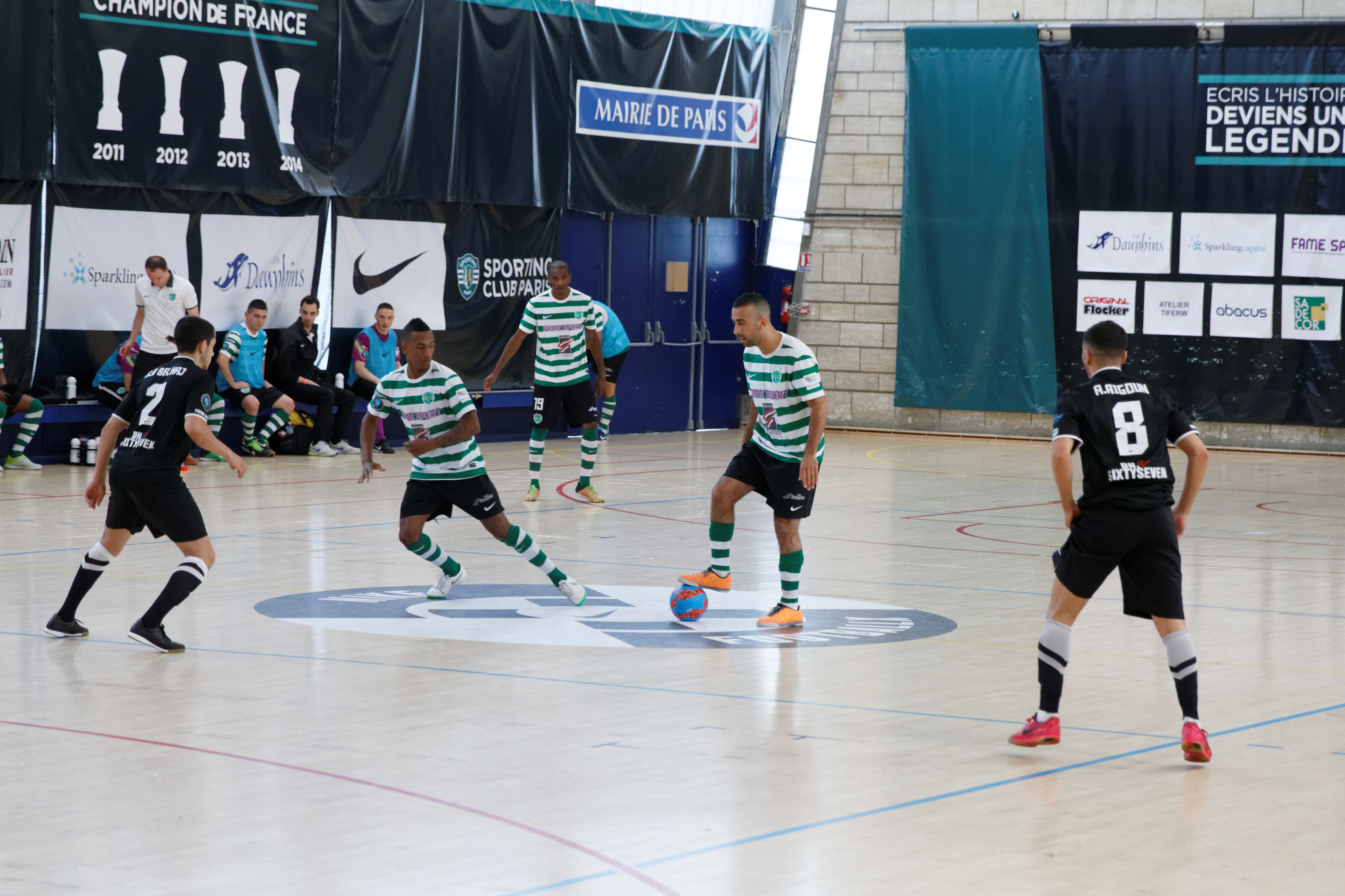 France futsal championship. Play-off. Sporting Club de Paris vs Kremlin-Bicêtre United.